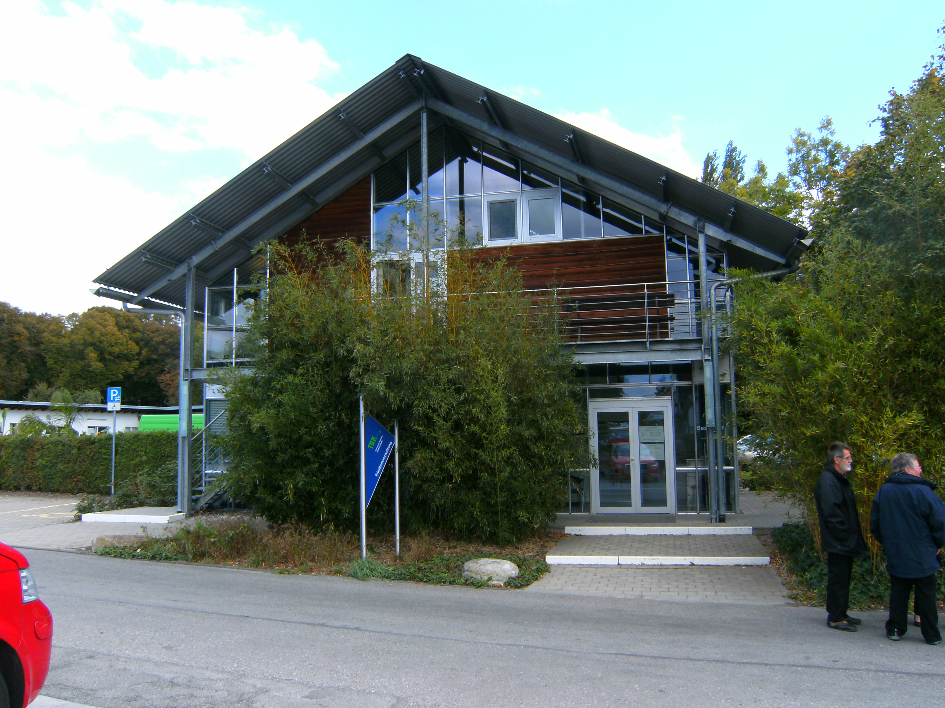 Hauptfriedhof Konstanz, Germany (main cemetery). Cemetery administration. Riesenbergweg.